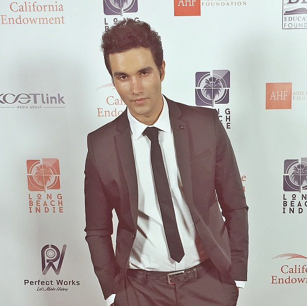 Marlon Blue at Long Beach Film Fest